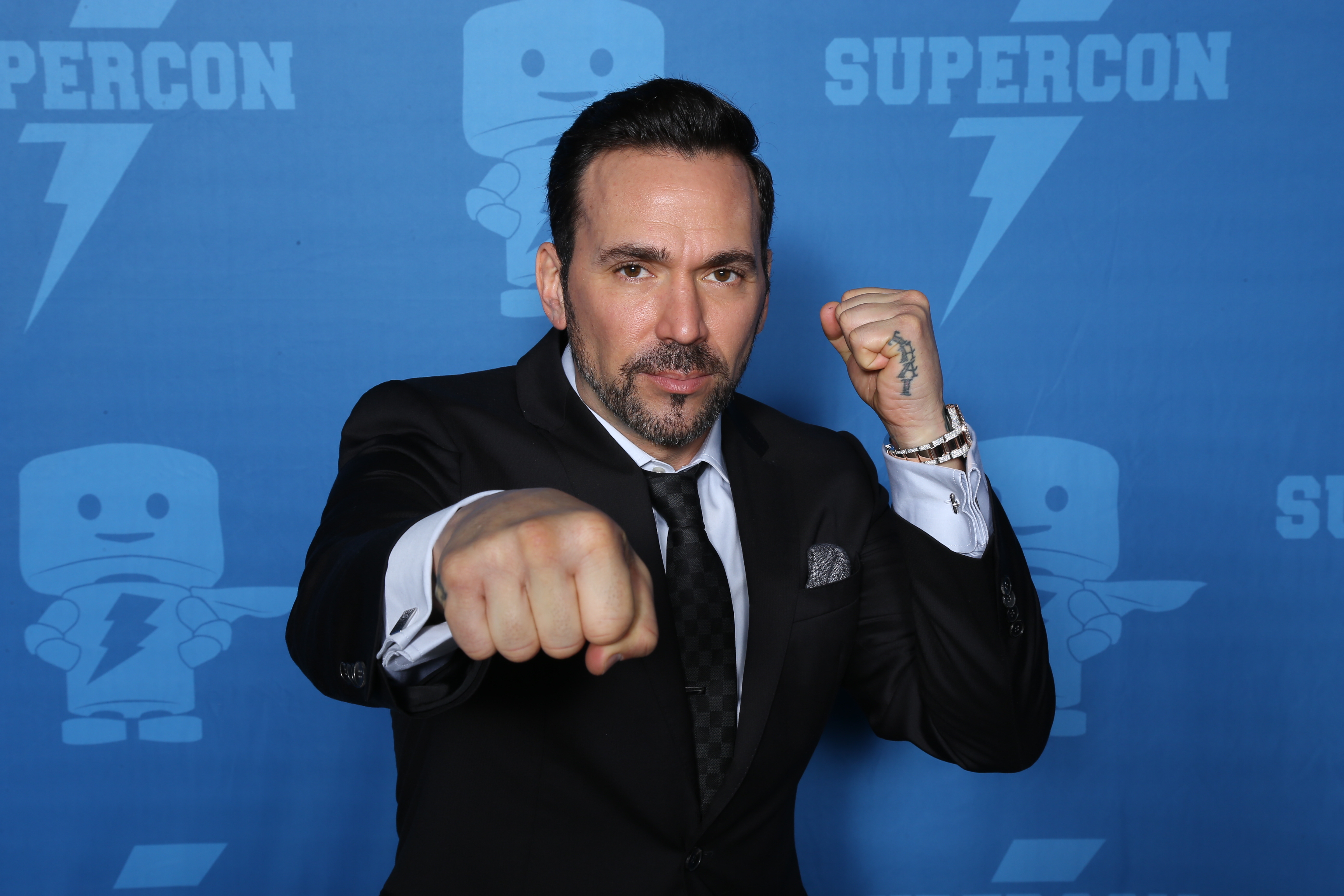 Jason David Frank at the Louisville Supercon in 2018